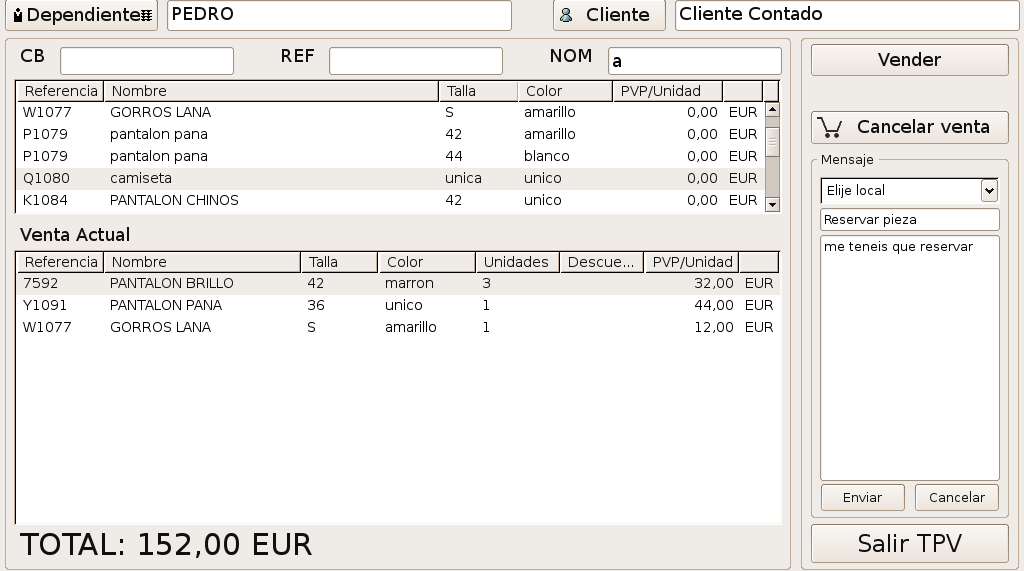 Captura de pantalla de una aplicación XUL, para su uso en artículos que hagan referencia a esta tecnología. La imagen es licenciada Tei from es, the copyright holder of this work, hereby publishes it under the following license: Attribution: Tei